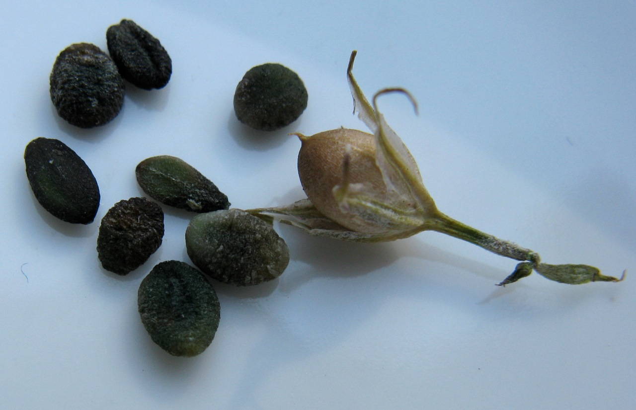 Phlox paniculata fruit and seeds, mixture from various cultivars